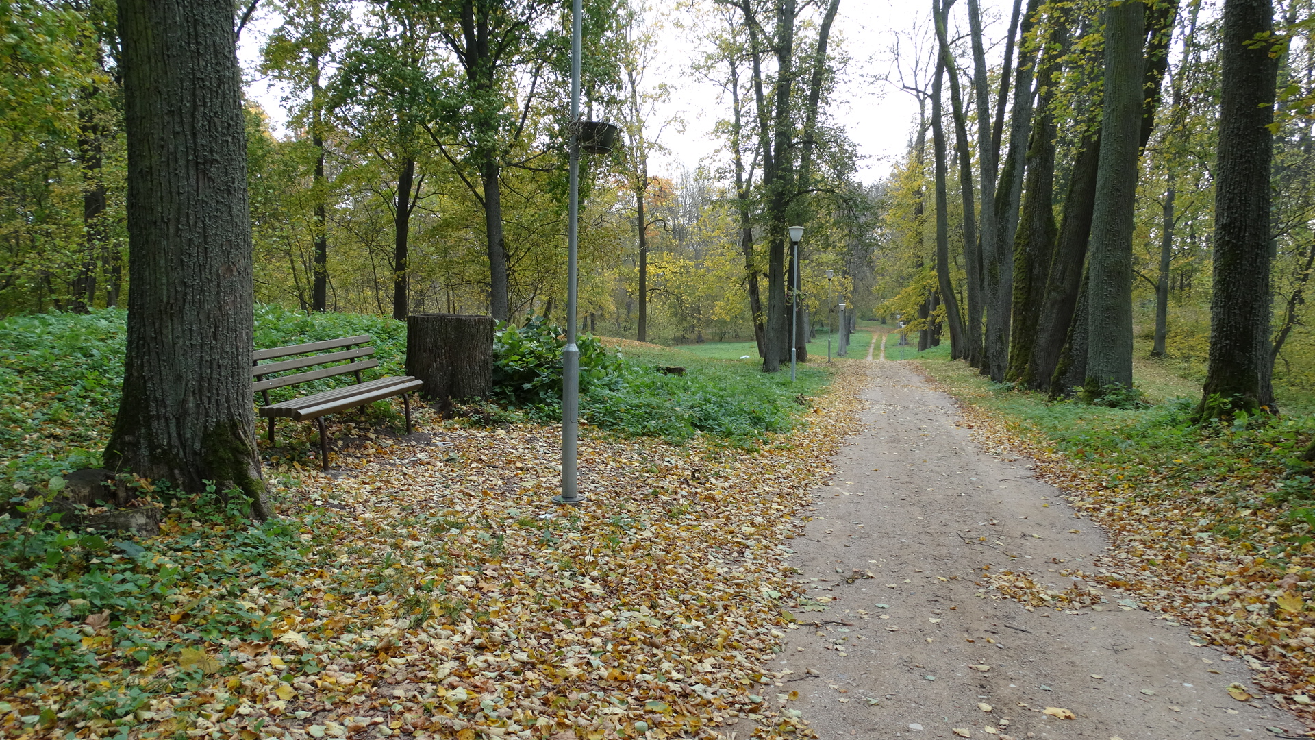 Park in Balbieriškis, Prienai District, Lithuania